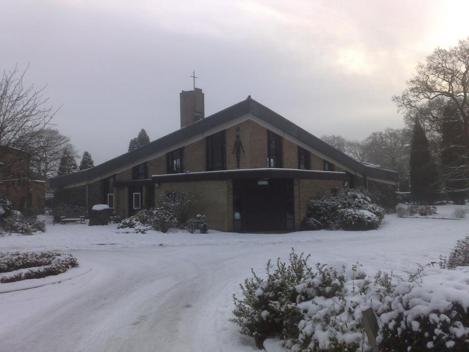 The Church of Saint David, Broom Leys - one of three Anglican churches built to serve new parishes formed out of the ancient parish of Whitwick - photographed in January 2010.